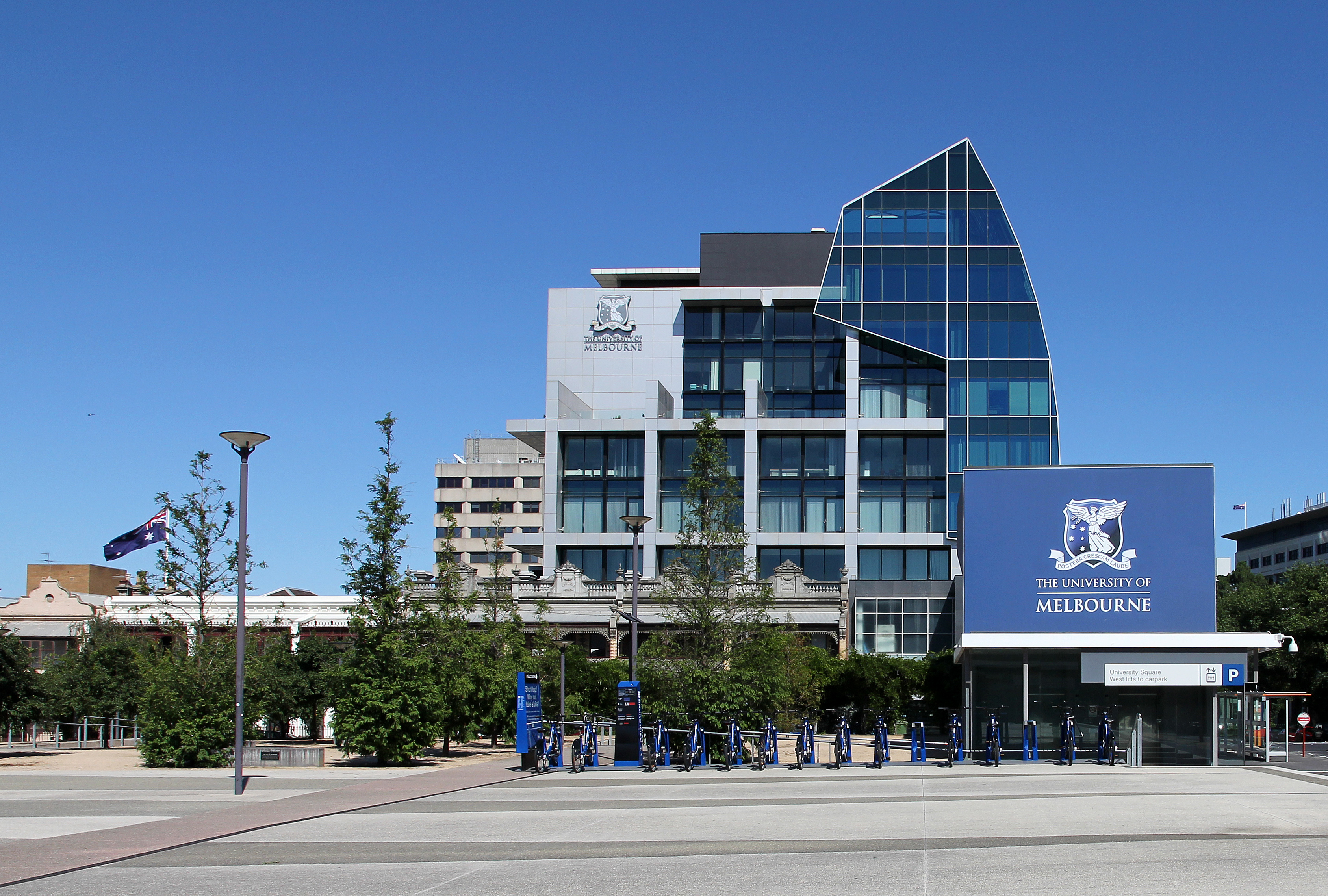 Alan Gilbert Building, University of Melbourne, Grattan Street, Calton